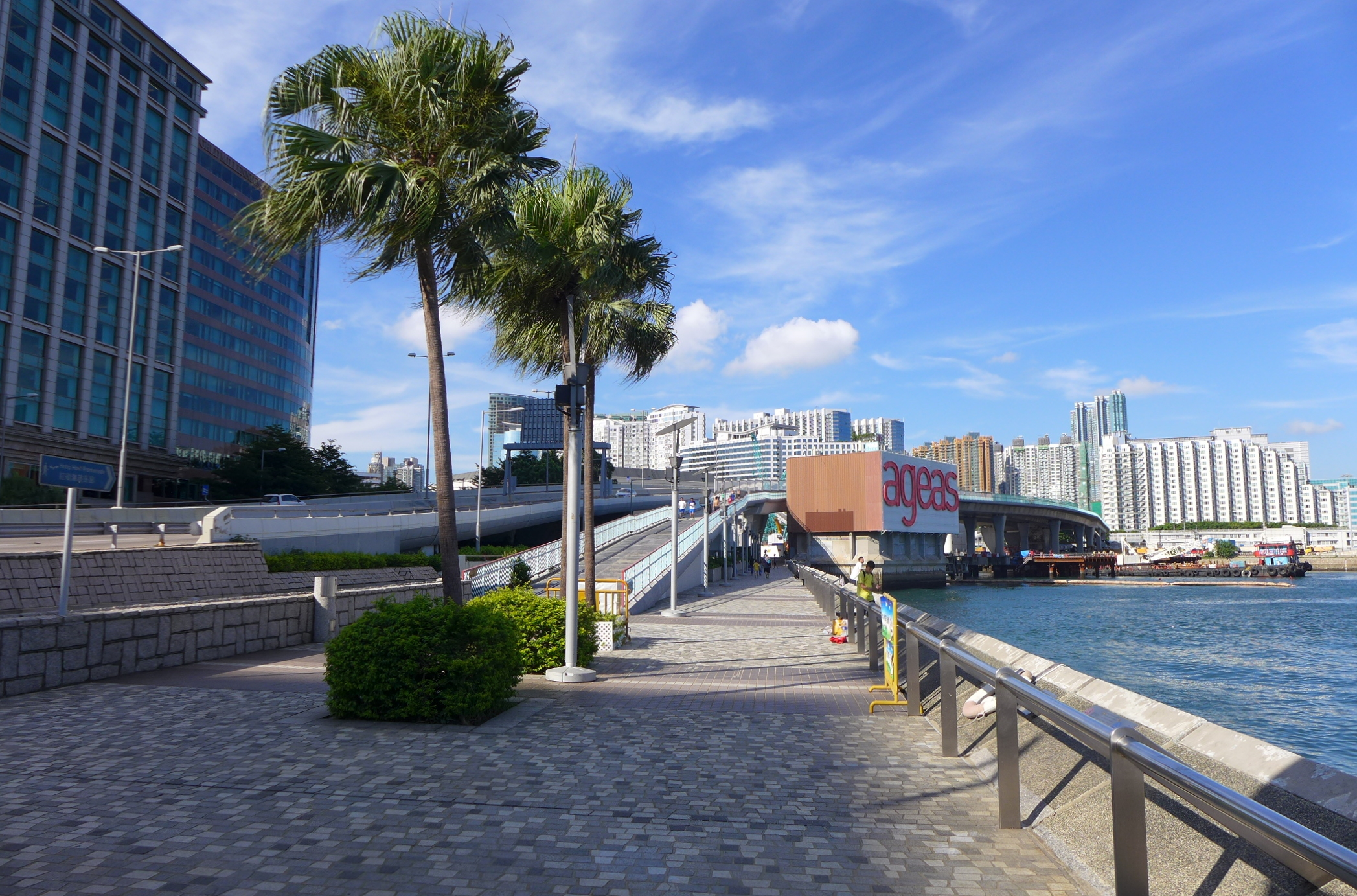 Tsim Sha Tsui Promenade near Hung Hom